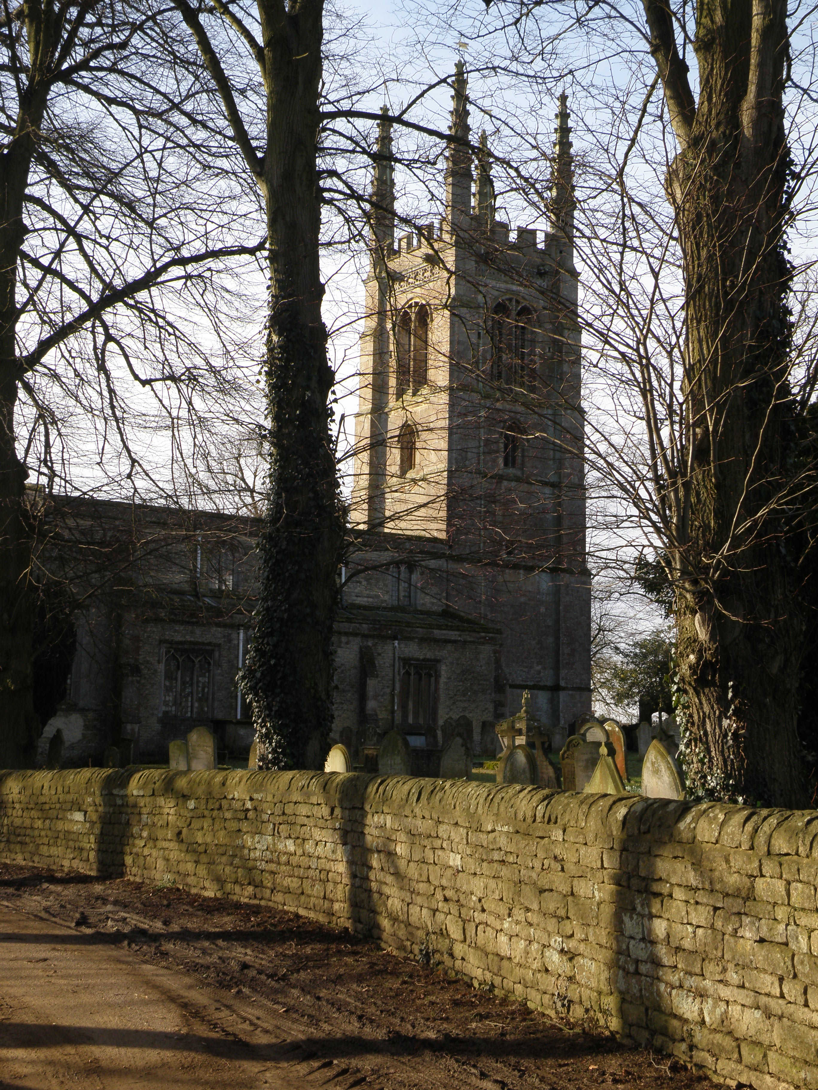 All Saints, Easton on the Hill An early spring view of the church unhindered by leaves on the trees.